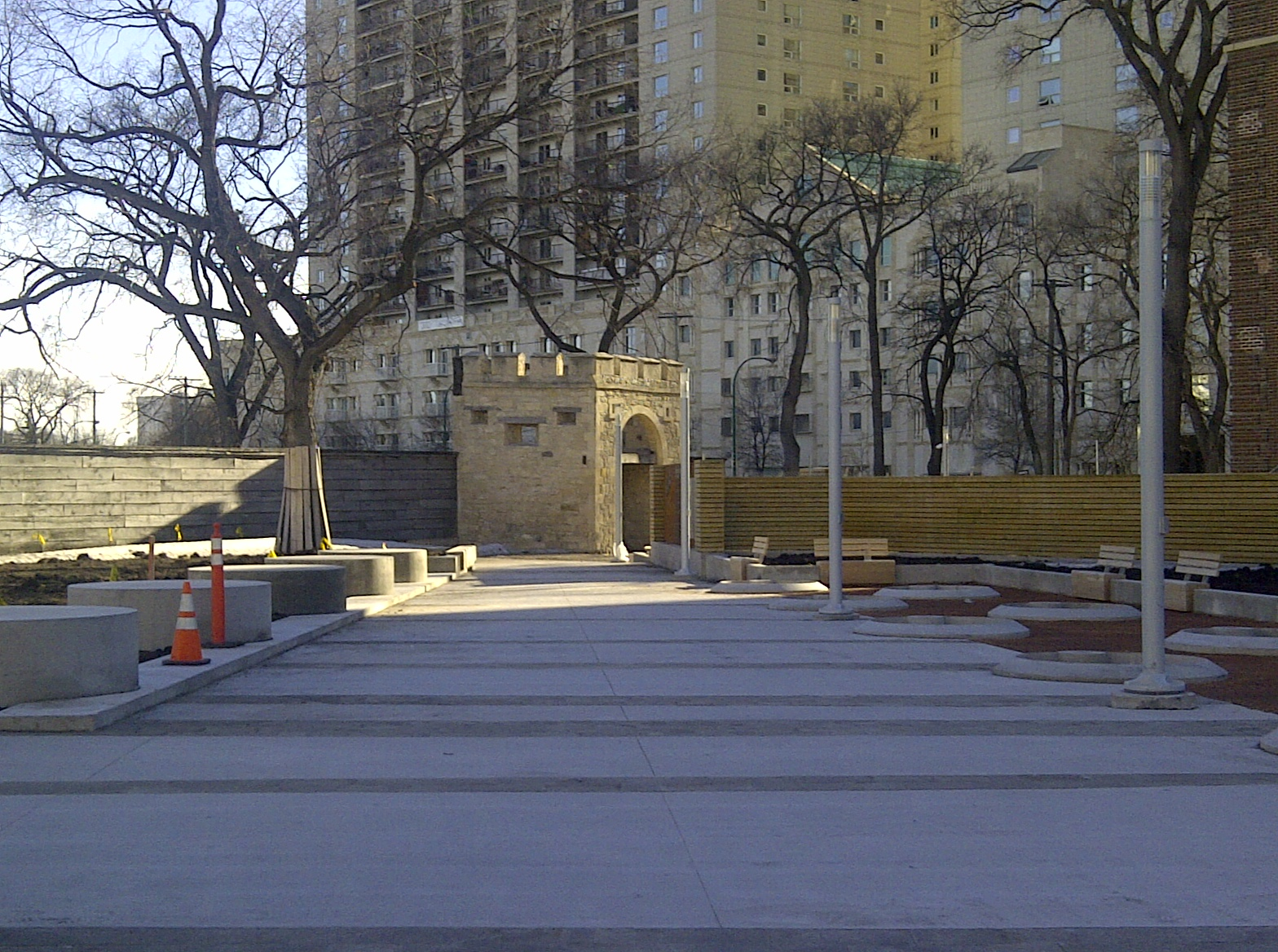 This image, taken on March 15, 2015, depicts the entrance to the Upper Fort Garry Heritage Park now under construction in Winnipeg. The vantage point is the corner of Main St and Broadway Ave, and the picture is intended for use at the article Fort Garry.